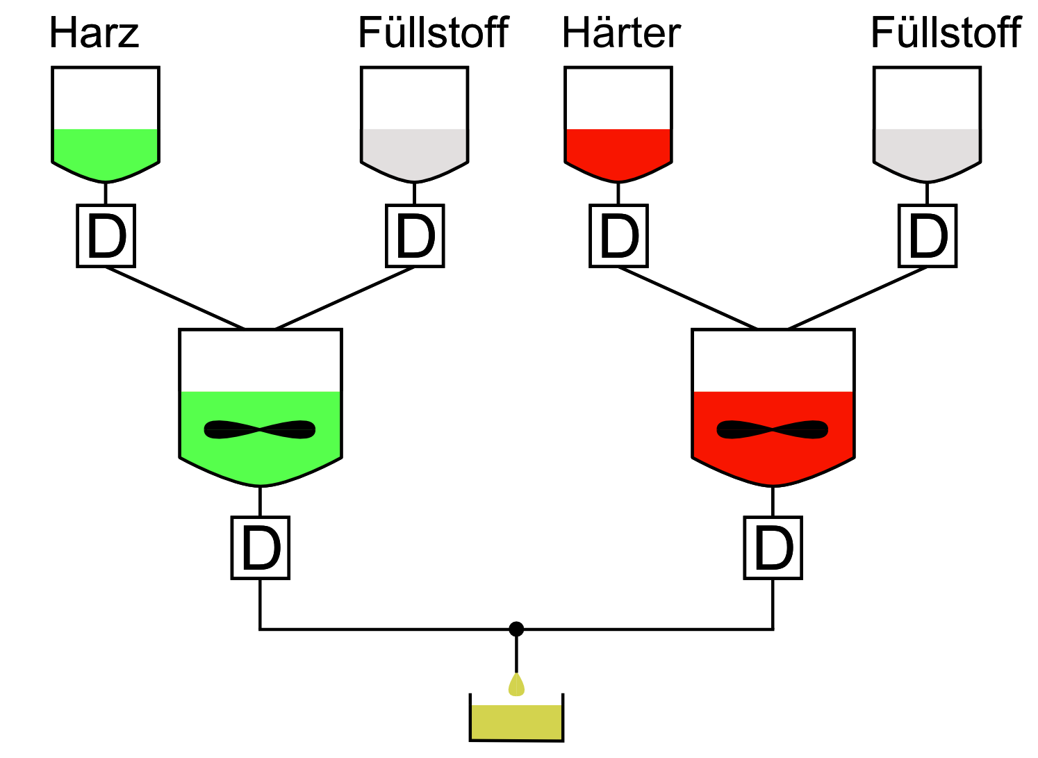 Schematic drawing of a two line casting plant, D indicates dosing devices